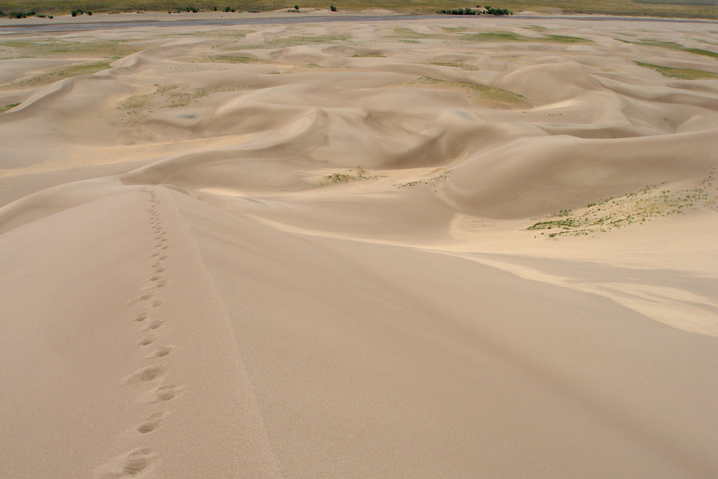 Great Sand Dunes National Park and Preserve, Colorado, USA, from top of Star Dune with Medano Creek in the distance along top edge